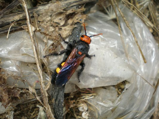 Near Aguilar de la Frontera, Córdoba, Spain.